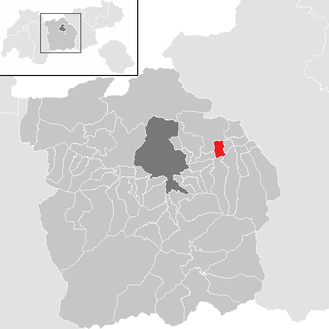 District Innsbruck Land